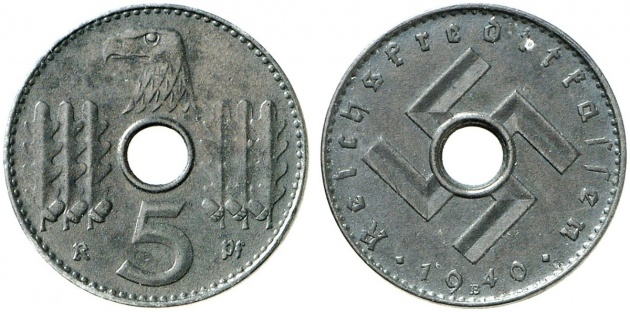 Currency of occupied countries of Nazi Germany (1940,1941).